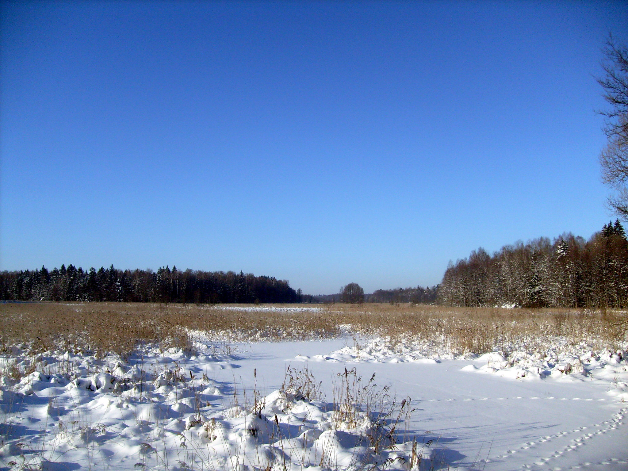 Flood water of river Leśna Prawa in Białowieża Forest. Winter 2010.